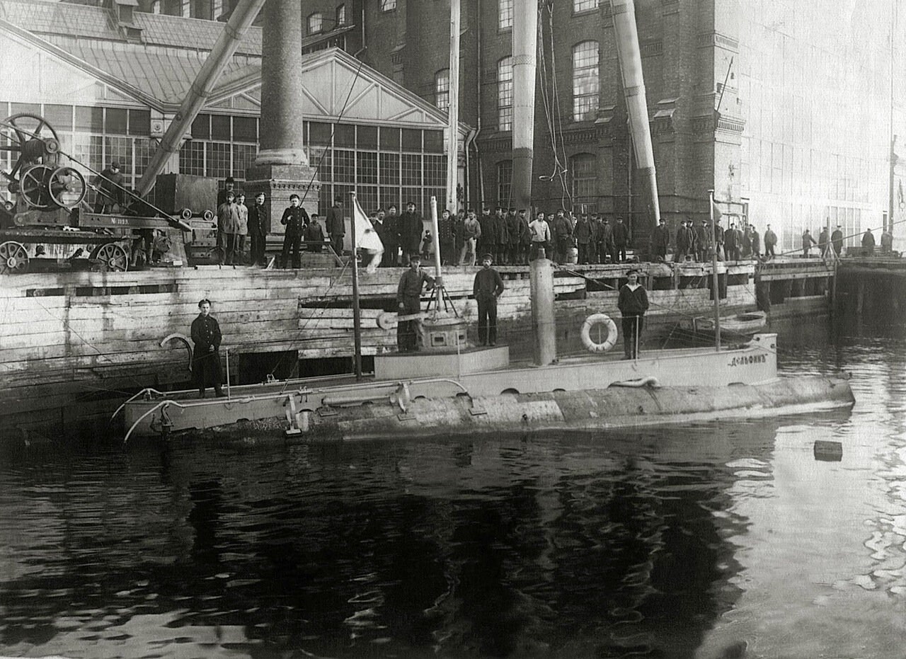 Russian submarine Delfin (Dolphin) - first submarine of Russian Navy. 1903 Downloaded from